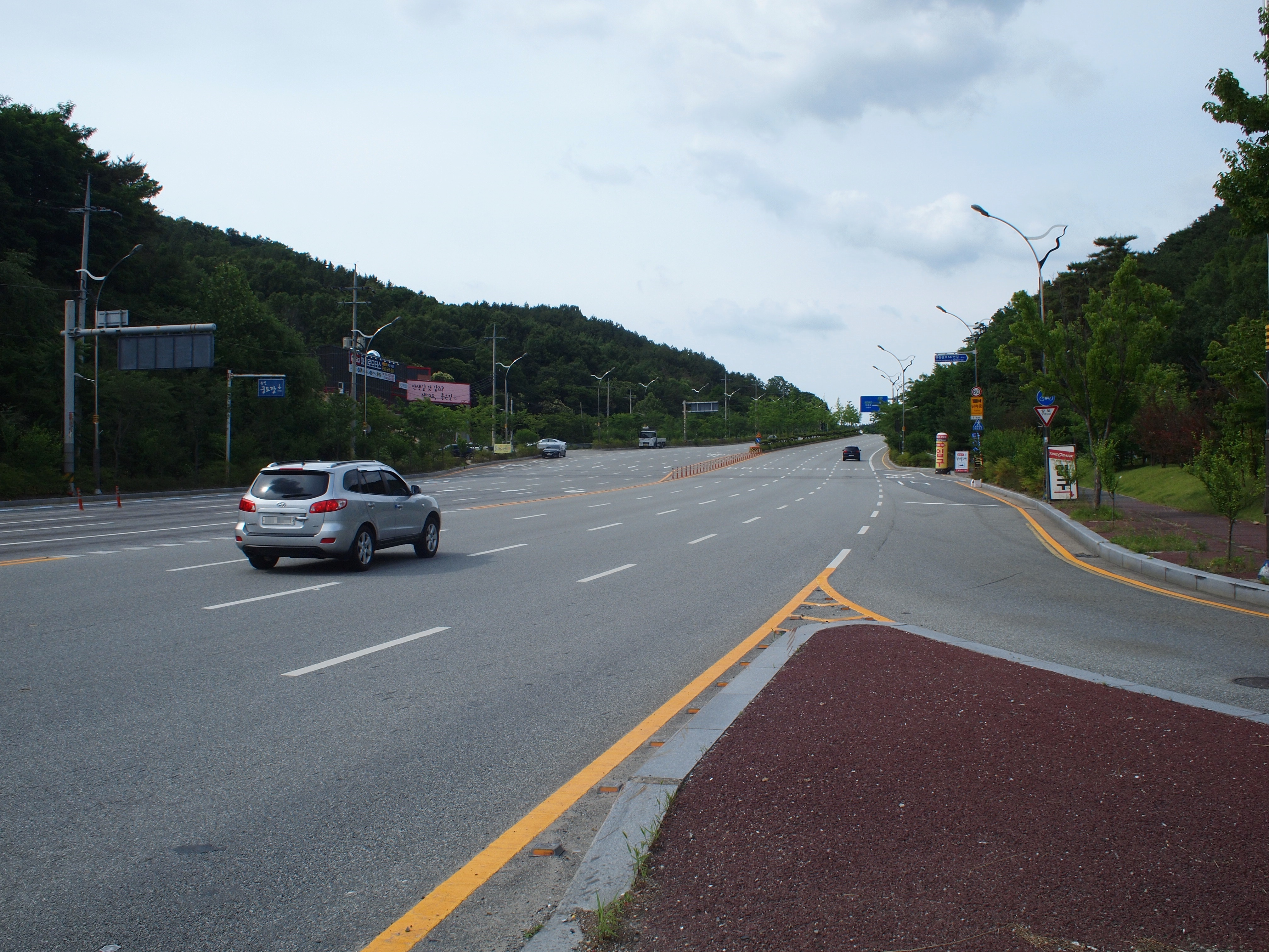 Hanbat-Daero